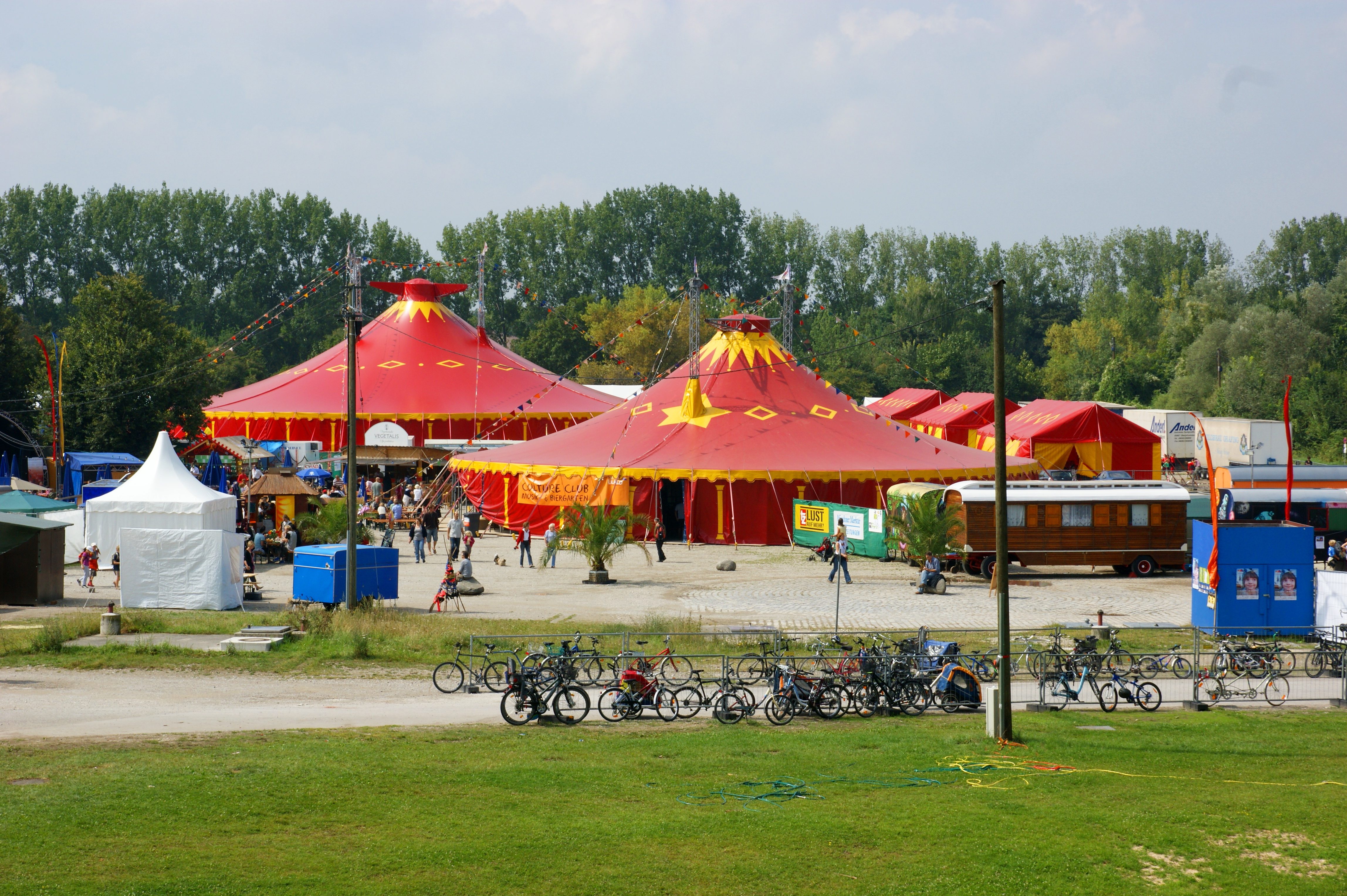 Festival LILALU in Olympiapark, Munich